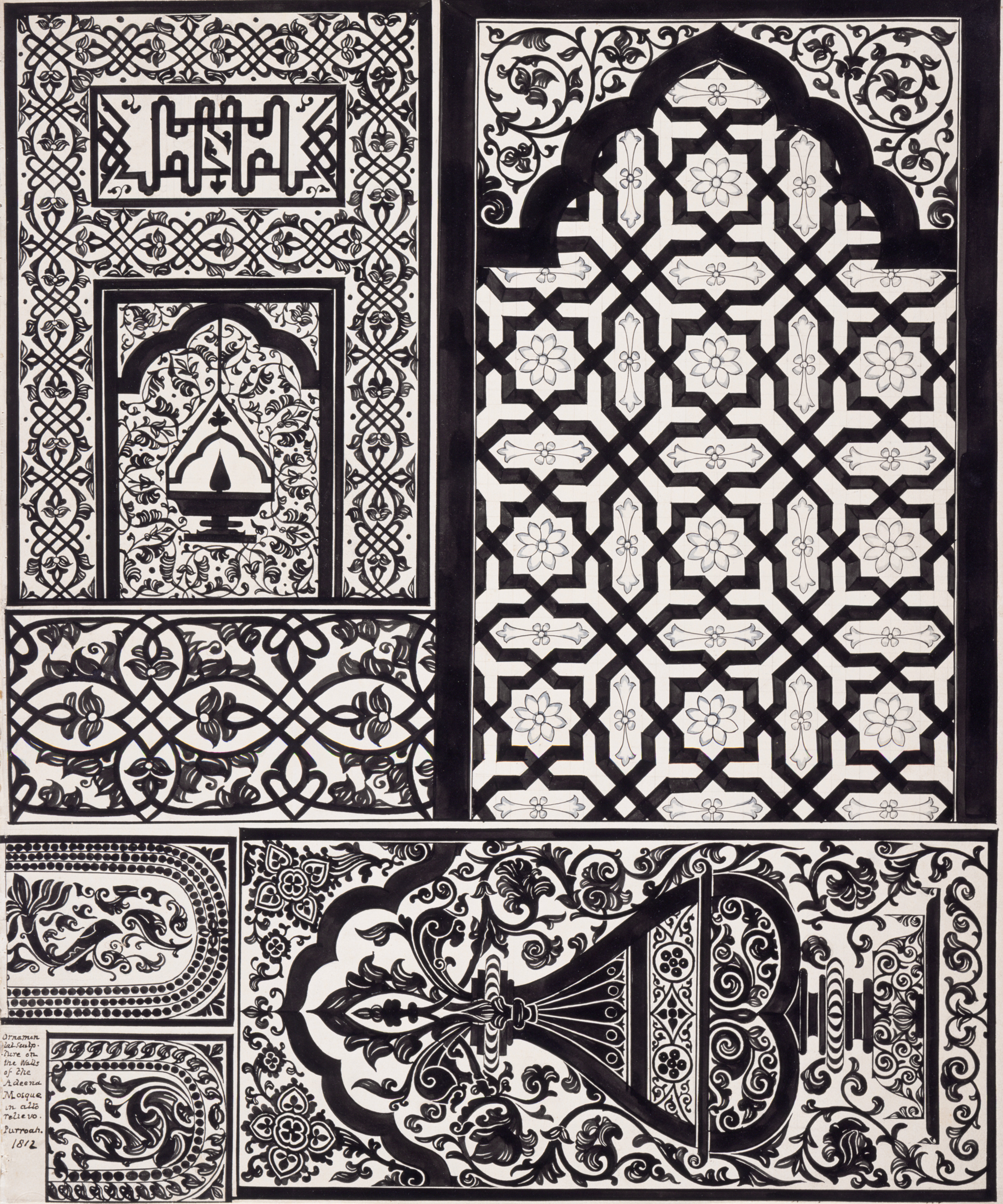 India, West Bengal, Purroah (?), 1812 Drawings; watercolors Opaque watercolor and ink on paper Indian Art Special Purpose Fund (AC1993.74.1) South and Southeast Asian Art